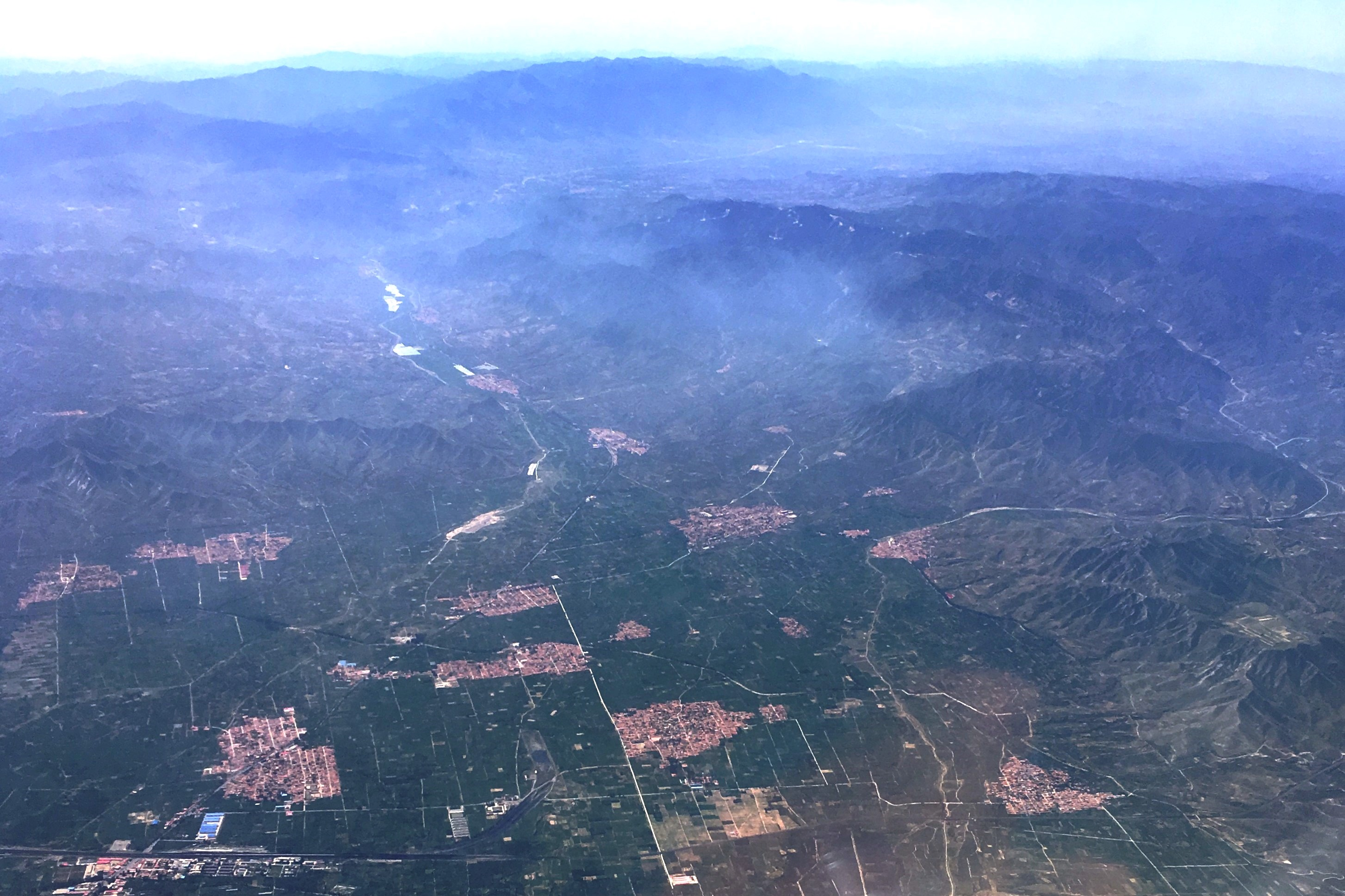 Aerial view from North towards South, of the Sanggan River South plain immediately south of Zhuolu city in the Zhangjiakou prefecture, Hebei province (China). The settlements are southern agricultural suburbs of Zhuolu city.